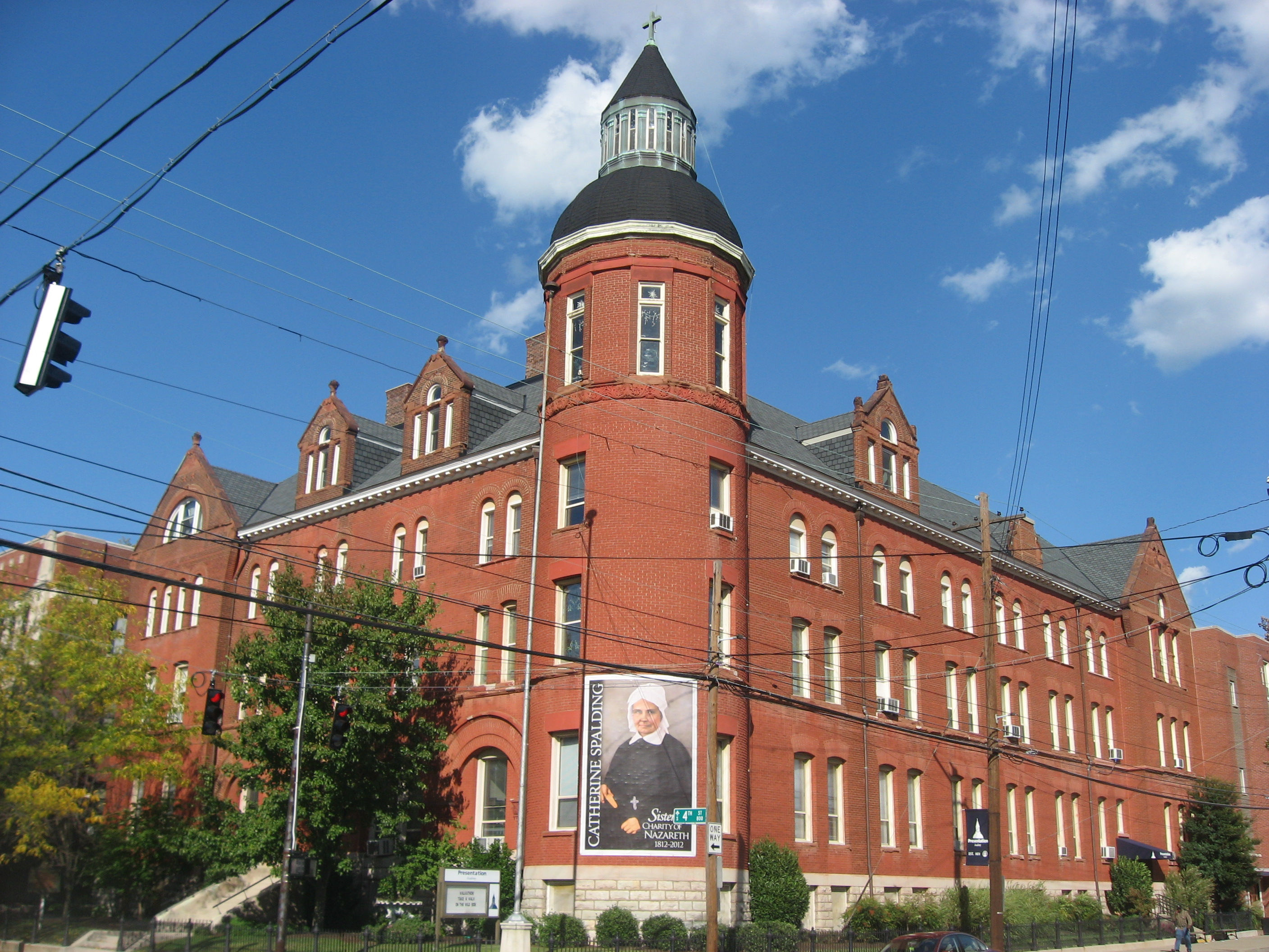 Front and southern side of the Presentation Academy, located at 861 S. Fourth Street in Louisville, Kentucky, United States. Built in 1893, it is listed on the National Register of Historic Places.